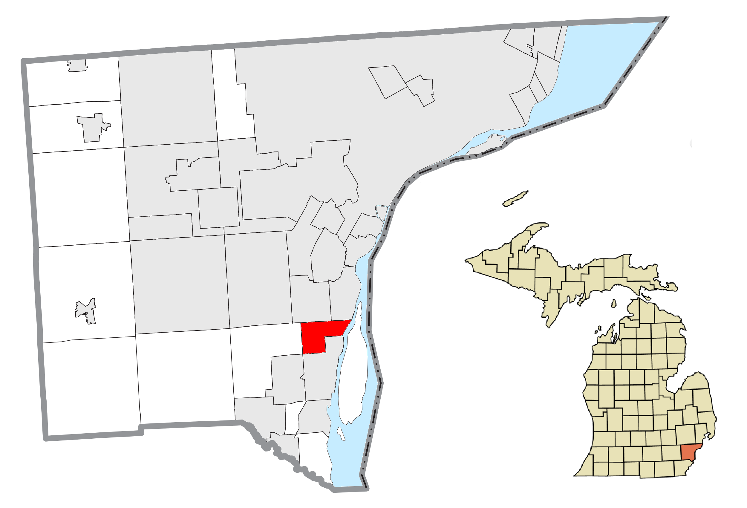 Riverview, MI